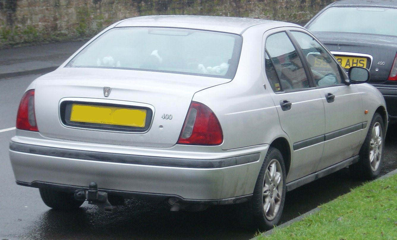 created by Mazurka